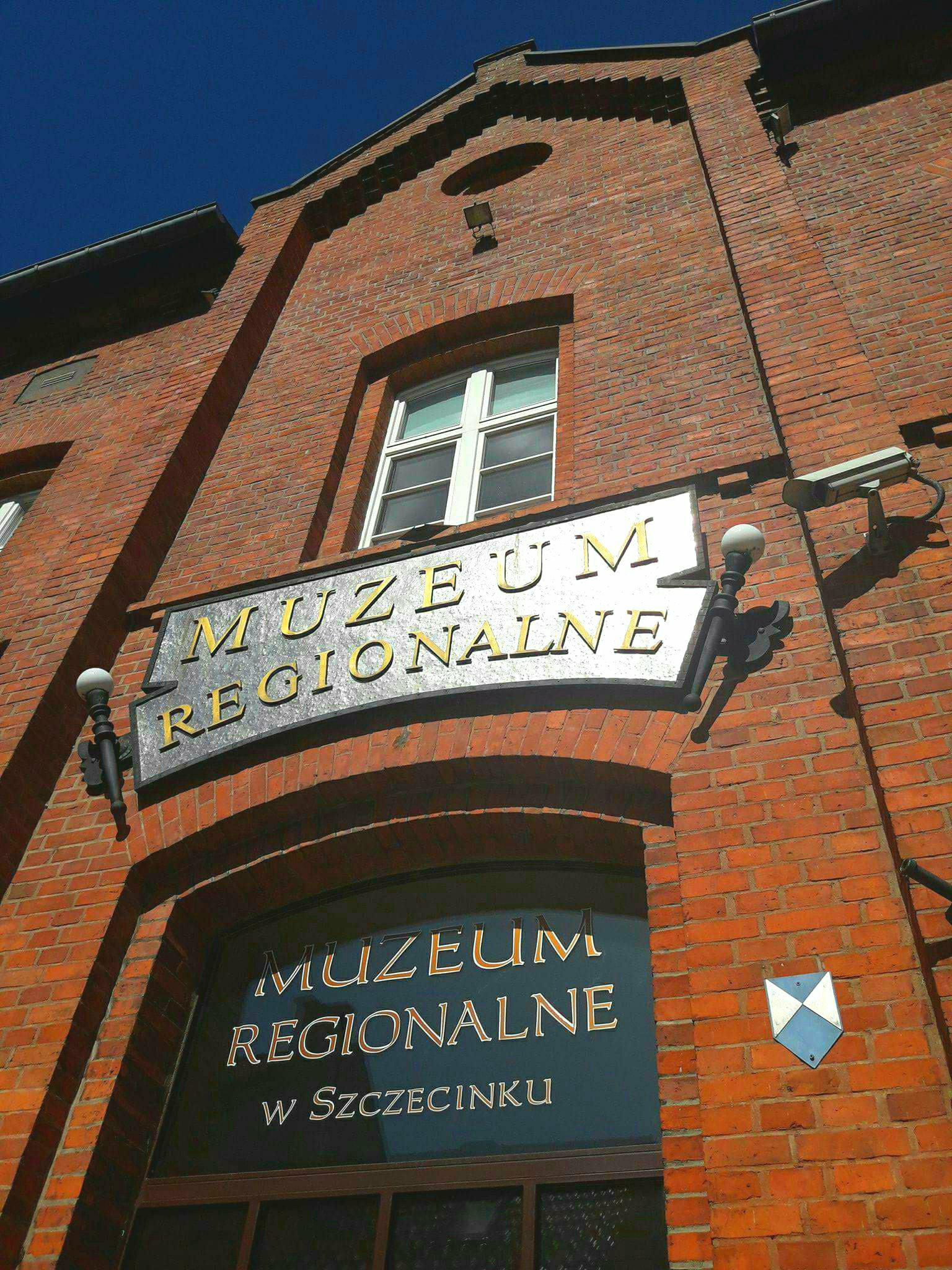 Entry to the museum.